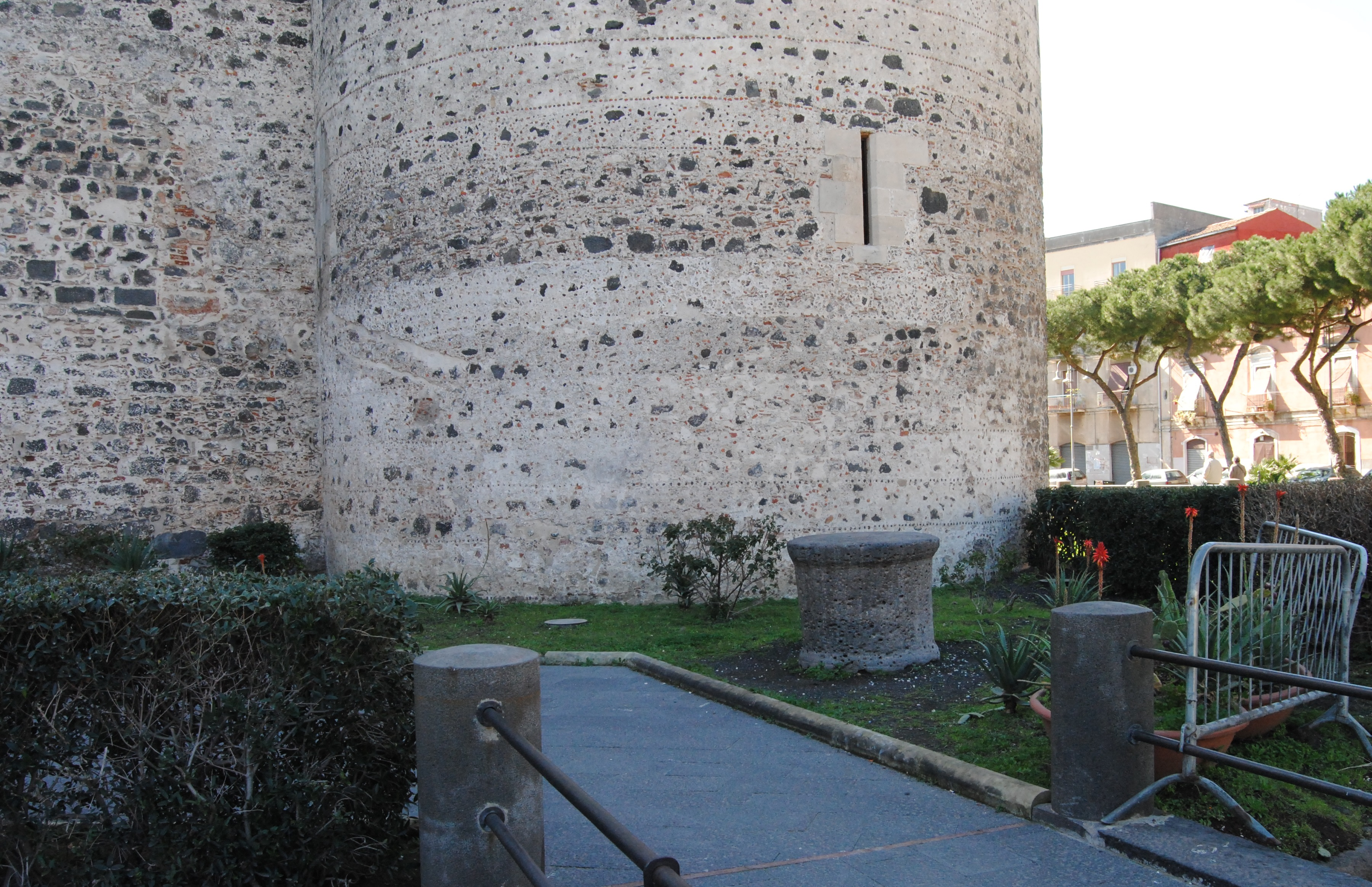 Pietra del Malconsiglio, capitello romano?